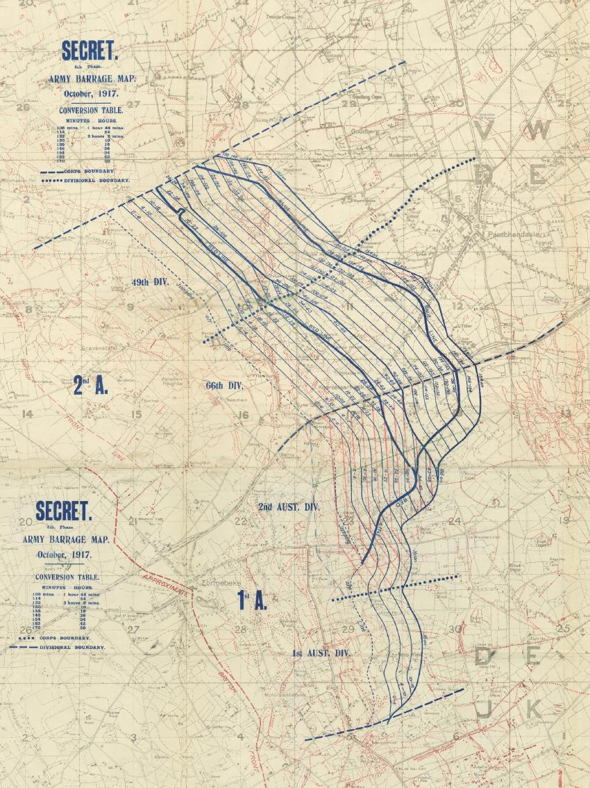 1:10000 scale army artillery barrage map from Battle of Poelcappelle during the Third Battle of Ypres.